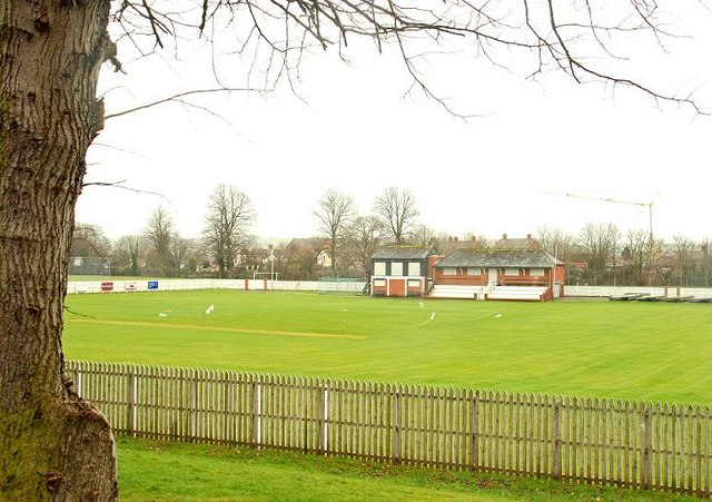 Lisburn Cricket Club Lisburn Cricket Club was formed in 1836. It has played at this ground, in the Wallace Park, since 1854.